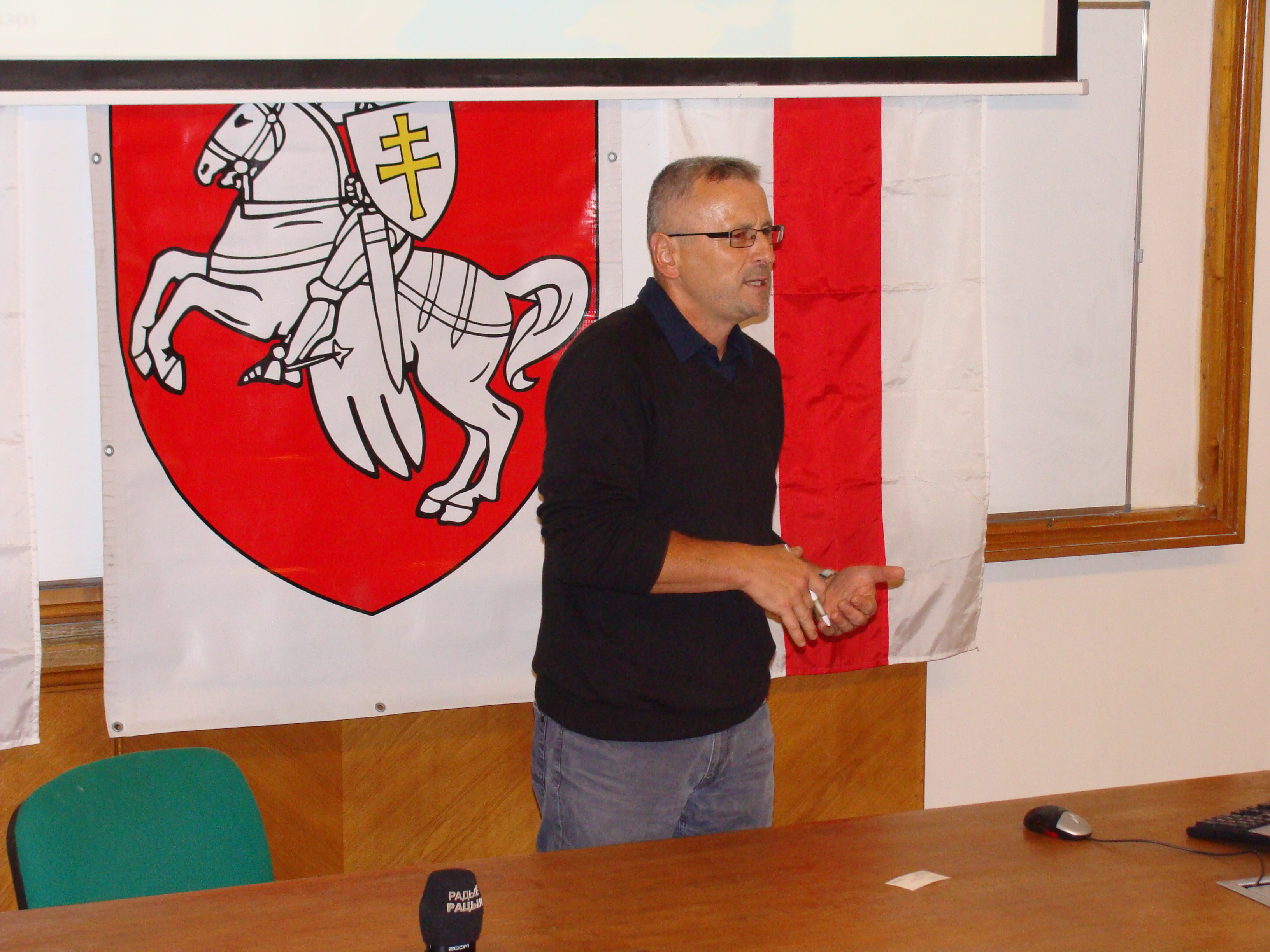 Professor Alexander Kraucevich (b. 1958) in the Collegium Civitas university in Warsaw